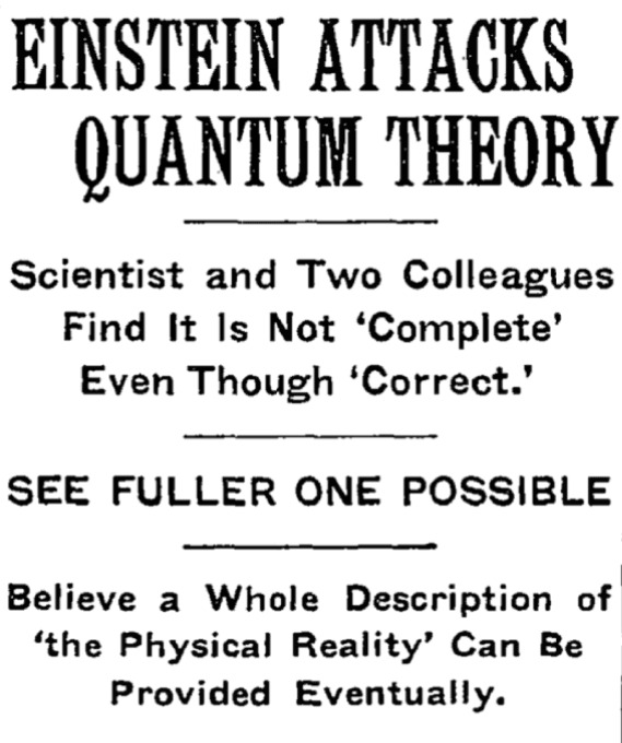 Newspaper headline from 1935, regarding Albert Einstein and quantum theory.